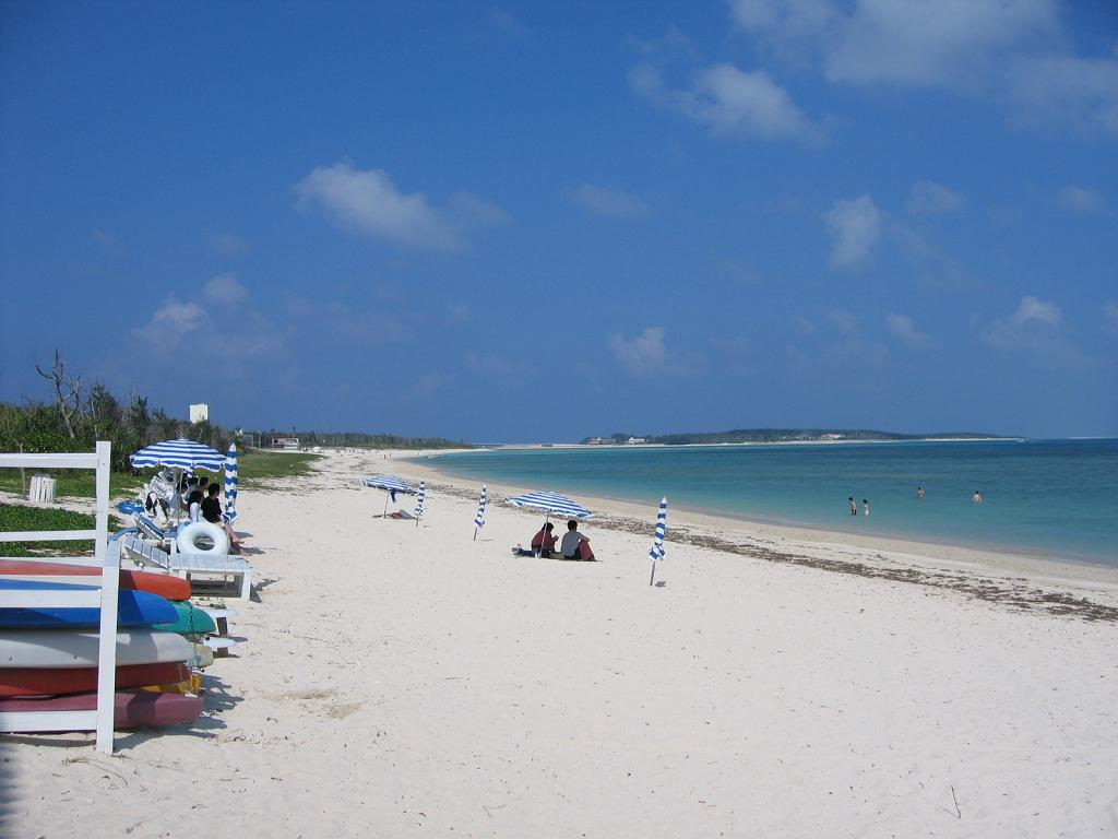 Īfu Beach, in Kumejima Island, Kumejima Town, Okinawa Prefecture, Japan